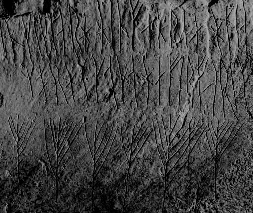 runes from the Maeshowe Chambered Cairn, Orkney. Not recommended for academic use - I have no idea whether or not this cut off does make any sense in terms of "understandable text". It was taken just for demonstration of different styles in writing the runes. The runes themselves are made visibal by extra light from aside and after some heavier work on the original print which might affect the stone structure!